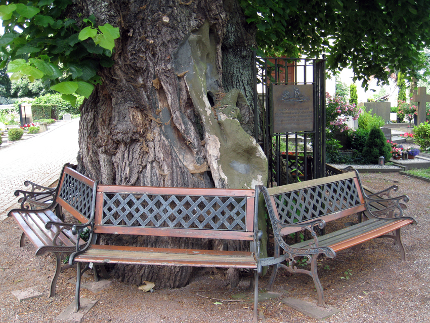 Trunk of the ca. 800 years old Horner Linde (“Linden tree of Horn”) in Bremen, Germany.